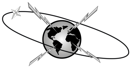 US Navy Mass Communications Specialist (MC). Globe with a satellite in orbit and four superimposed lightning bolts.